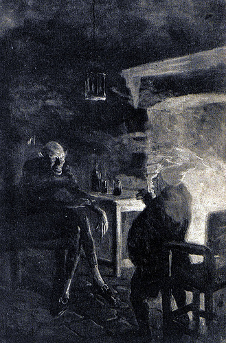 T.S. Coburn for Poe's “Bon-Bon” in ‘The complete works of Edgar Allan Poe’ New York: Putnam, c1902.